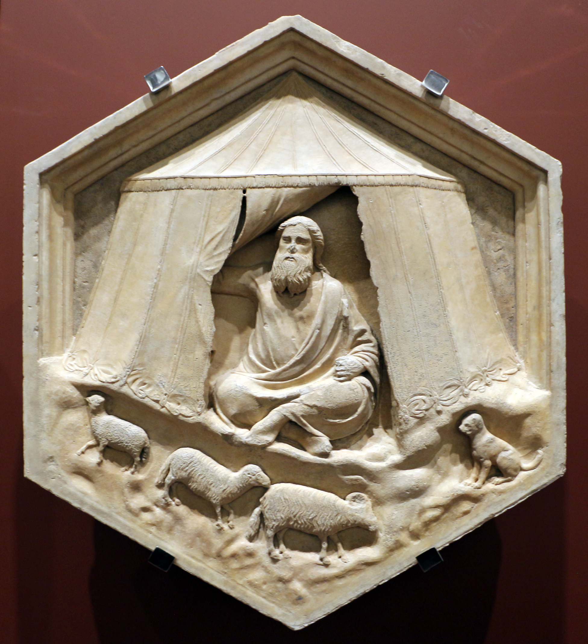 Reliefs of the Giotto's Belltower